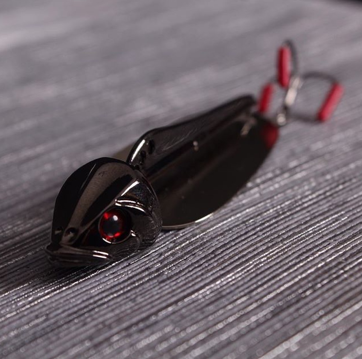 Bite booster lures